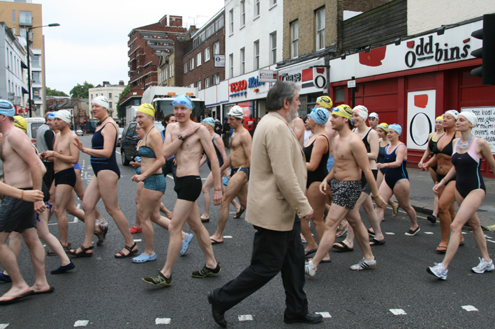 On July 12, 2007, 50 people swam across London.